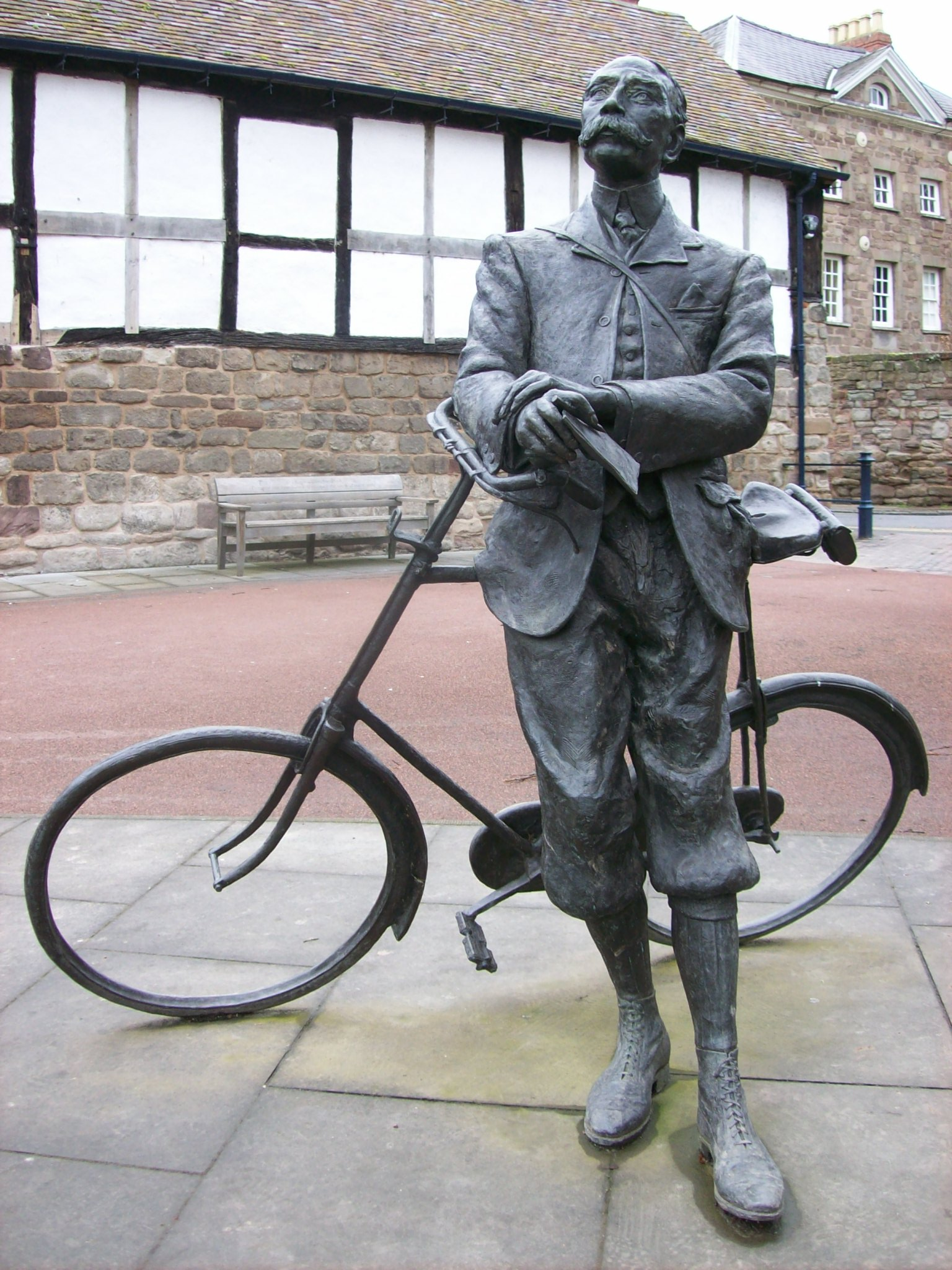 Elgar statue, Hereford